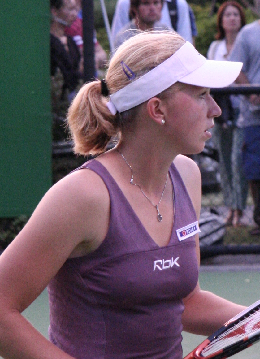 Michaella Krajicek at their first-round match of the 2007 Australian Open.